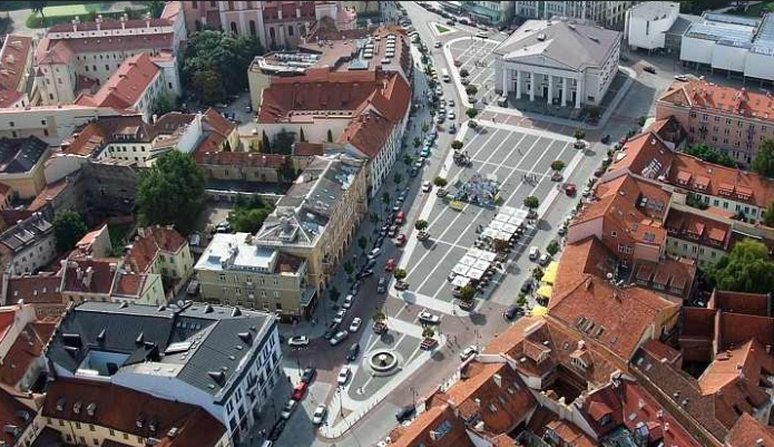 Town Hall Square in Vilnius from the air (Lithuania)